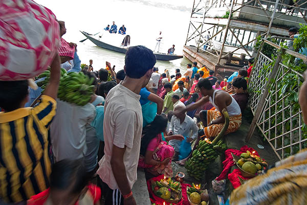 Chhath Puja celebrations going on at the banks of ganges(babughat) in kolkata on 16th Nov 2007. Please add this picture in the article related to Chhath.